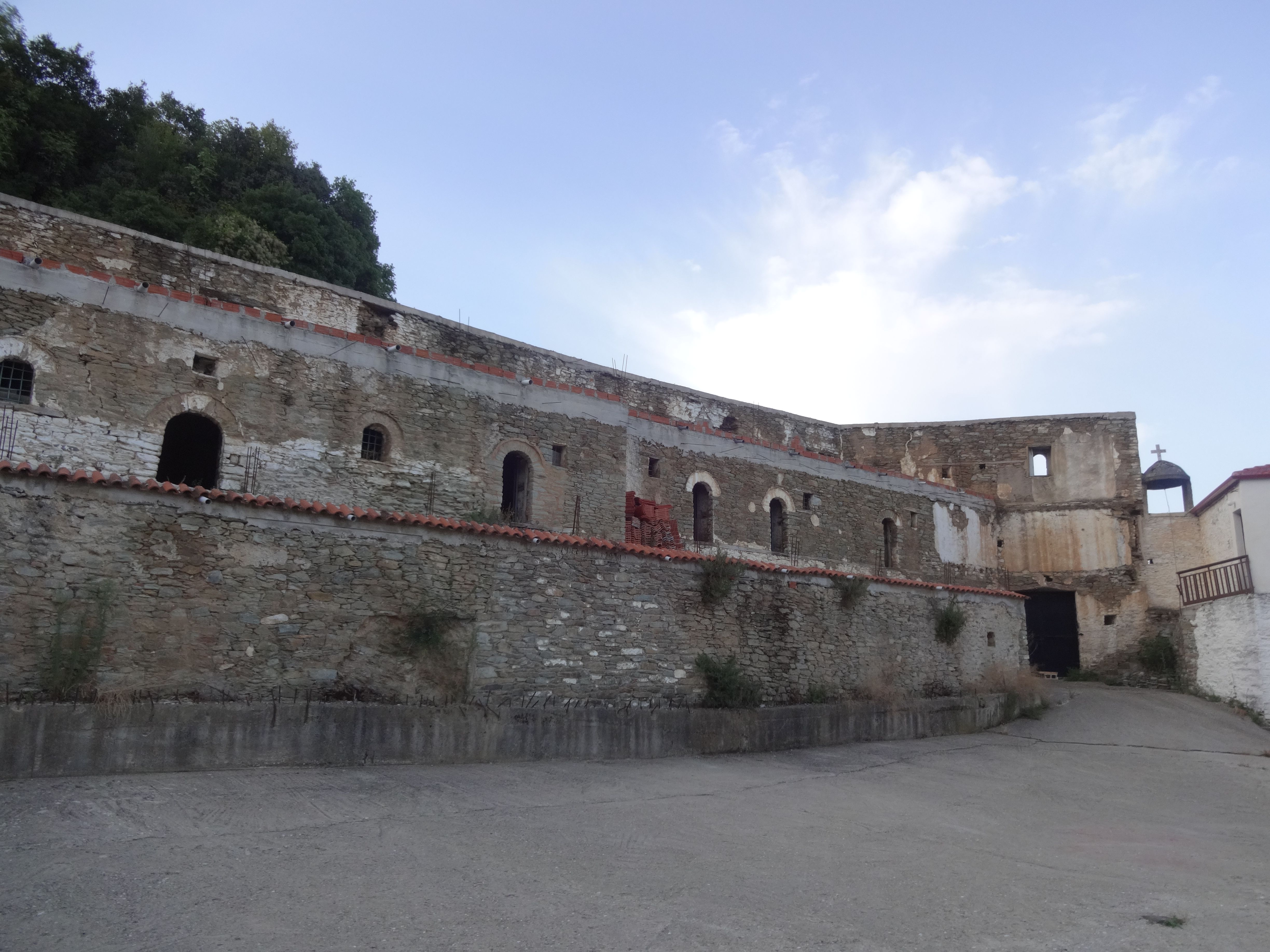 Tsaritsani, Greece. Monastery of St. Demetrious.